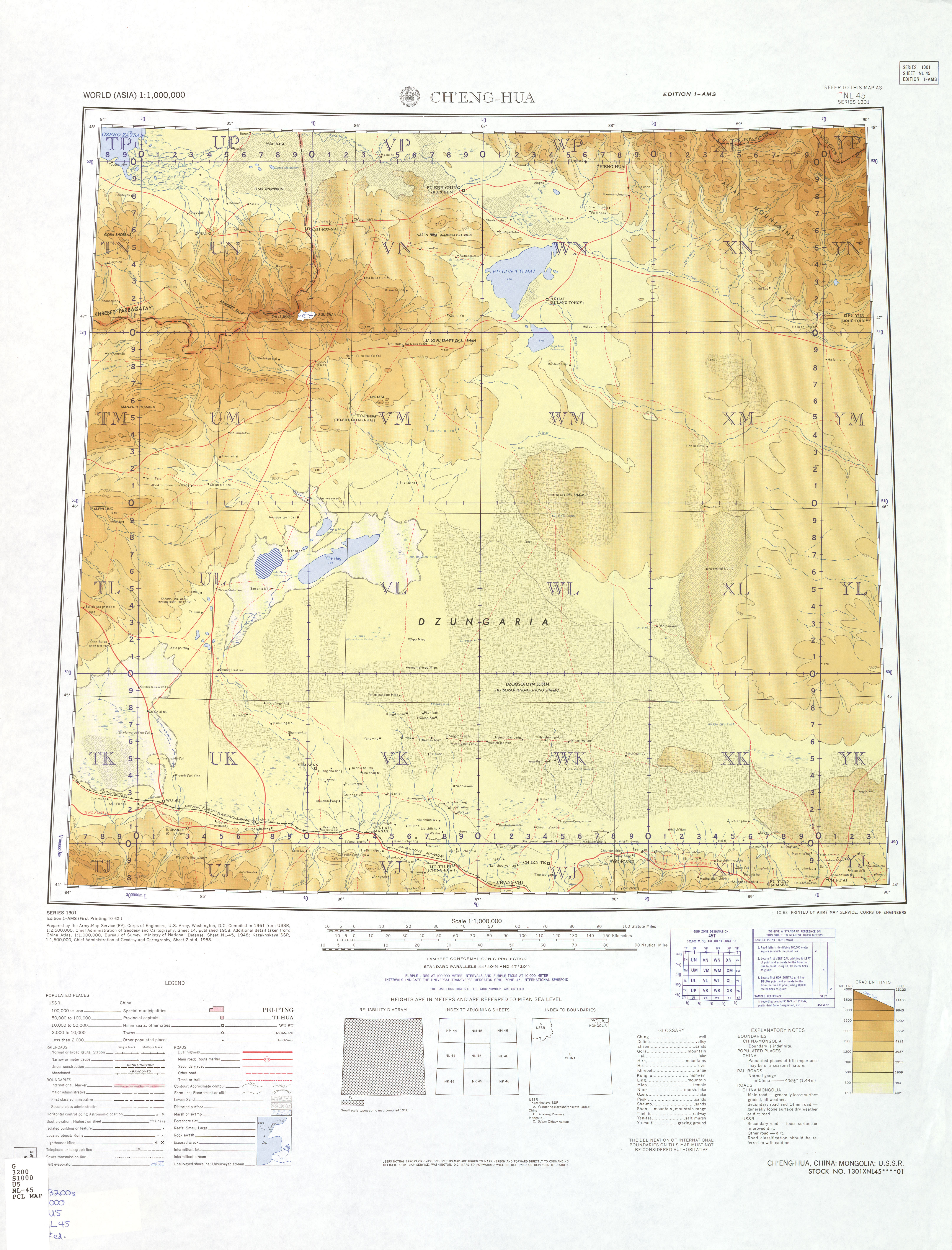 Map from the International Map of the World 1:1,000,000